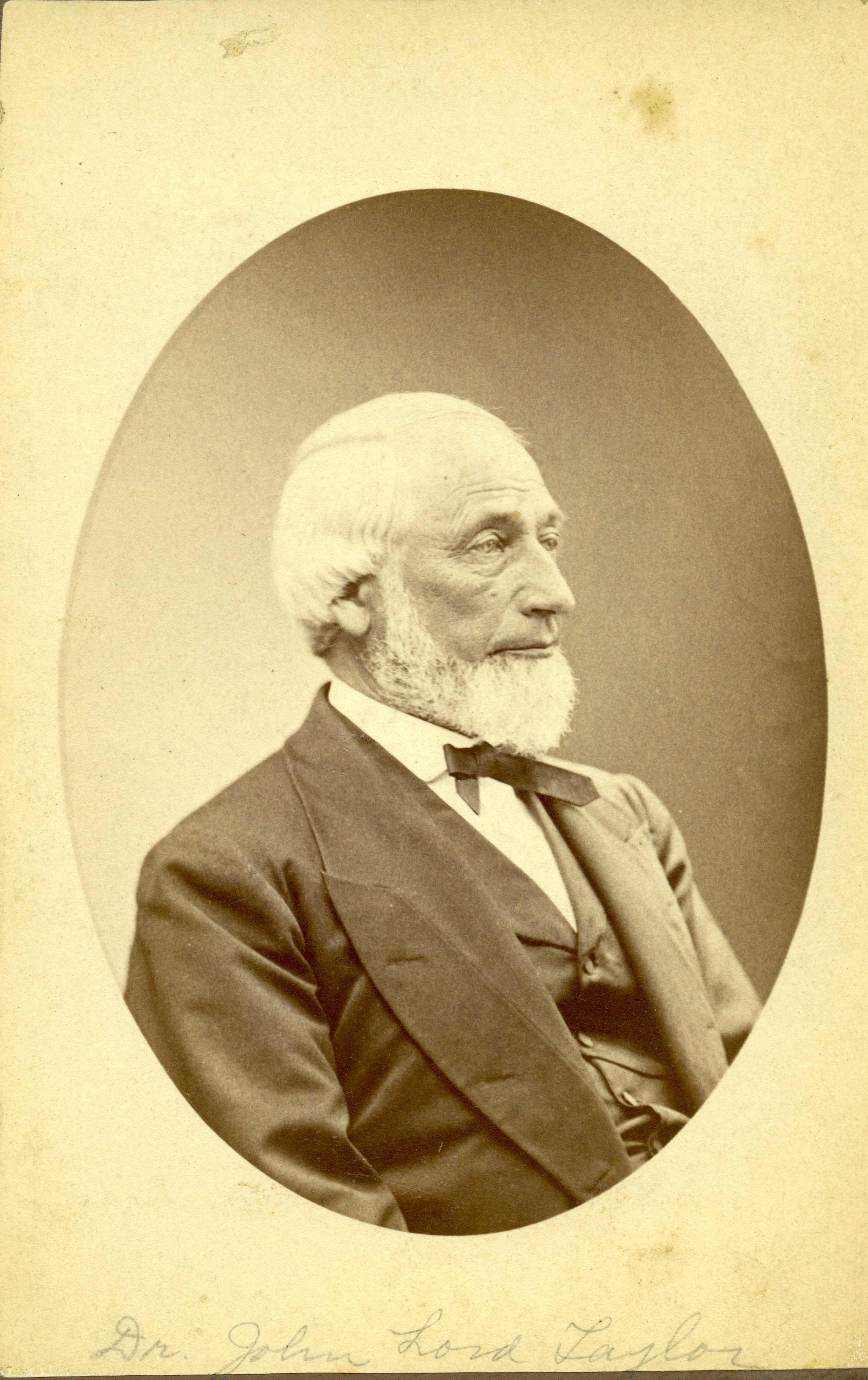 A portrait of John Lord Taylor (1811-1884), 6th Pastor of the South Church in Andover, MA from 1839 to 1852, President of the Faculty of the Andover Theological Seminary, and head of the Andover National Bank.